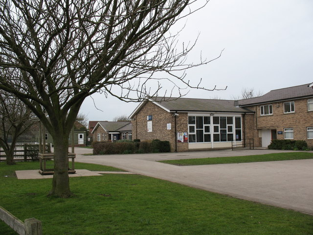 Wheldrake Primary School. A typical seventies style school in the commuter village of Wheldrake.